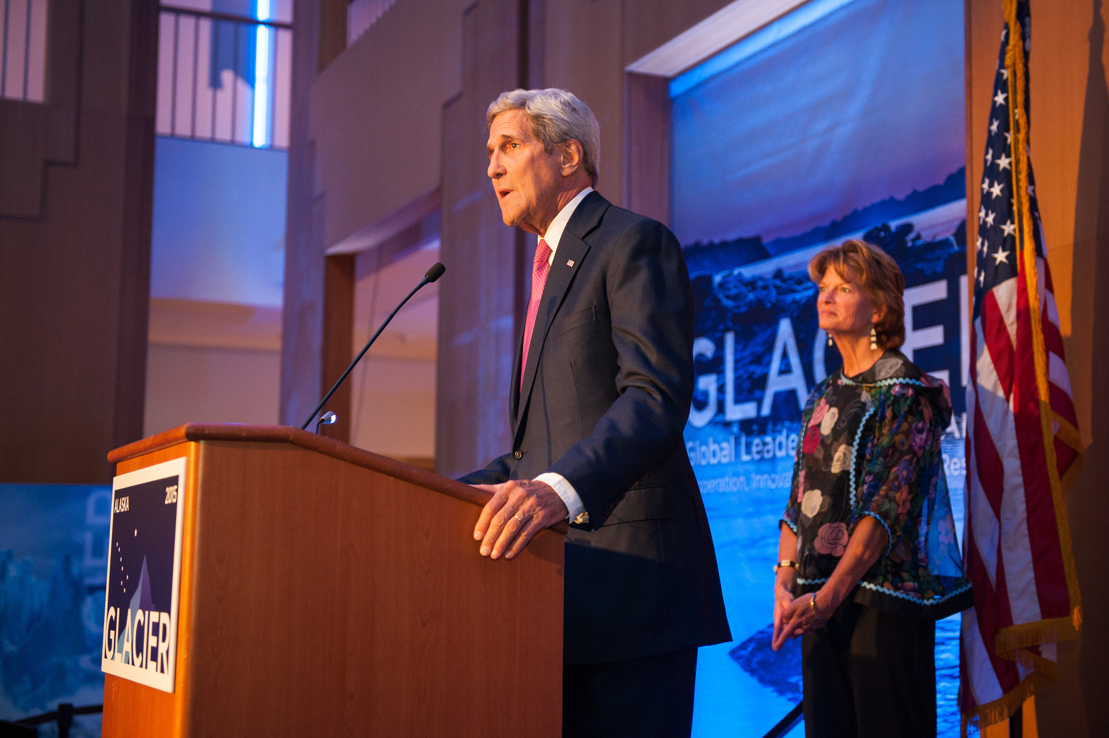 U.S. Secretary of State John Kerry, joined by U.S. Senator for Alaska Lisa Murkowski, discusses the effects of Arctic climate change at the welcome reception for the Global Leadership in the Arctic: Cooperation, Innovation, Engagement, and Resilience (GLACIER) Conference, at the Anchorage Museum in Anchorage, Alaska, on August 30, 2015. [State Department Photo / Public Domain]